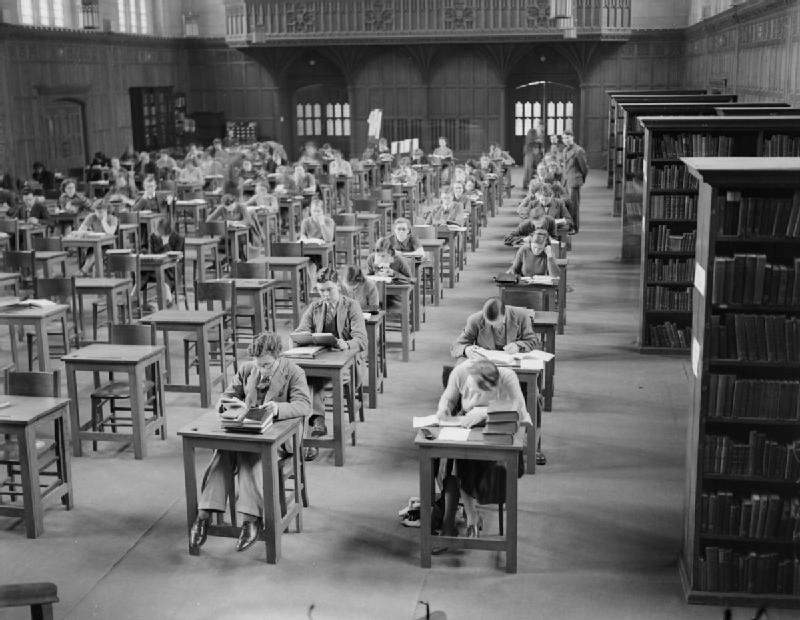 King's College London Students Evacuated To Bristol, England, 1940 Students from King's College London University study in the Great Hall of Bristol University, which has become the King's College temporary library. This particular study session lasted from 11:30am until 12:45pm.